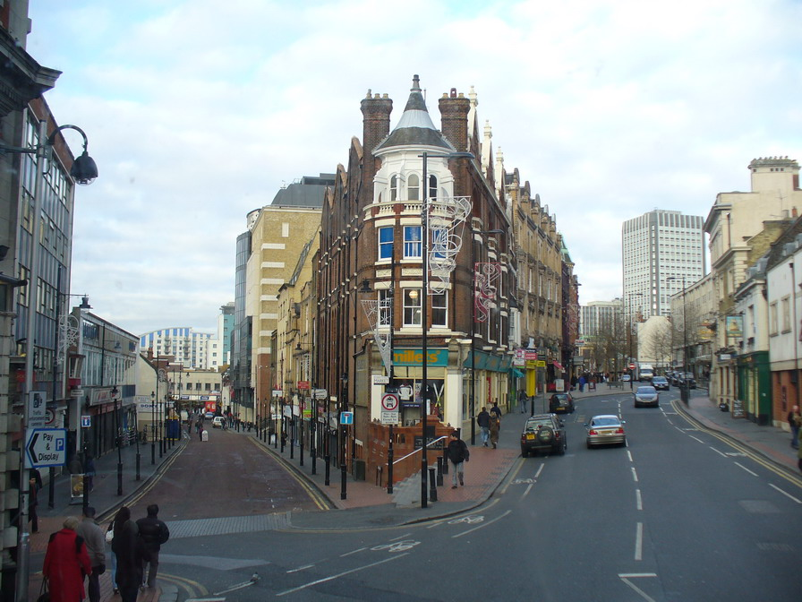 Croydon - High & Surrey Street junction